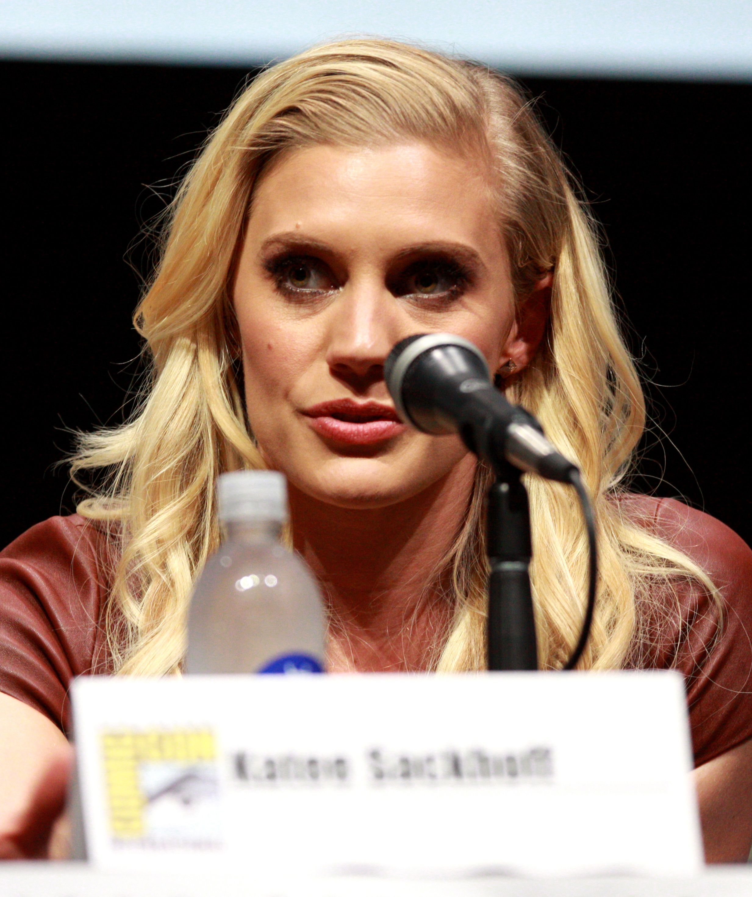 Katee Sackhoff at the 2013 San Diego Comic Con International in San Diego, California.